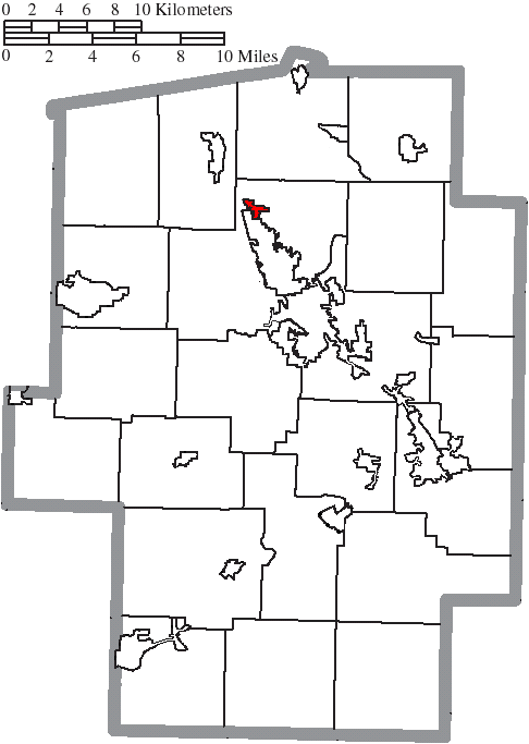 Map of the municipal and township boundaries of Tuscarawas County, Ohio, United States, as of the 2000 census, with the location of the village of Parral highlighted. Township borders are shown only in unincorporated areas in order to differentiate incorporated and unincorporated areas more clearly.